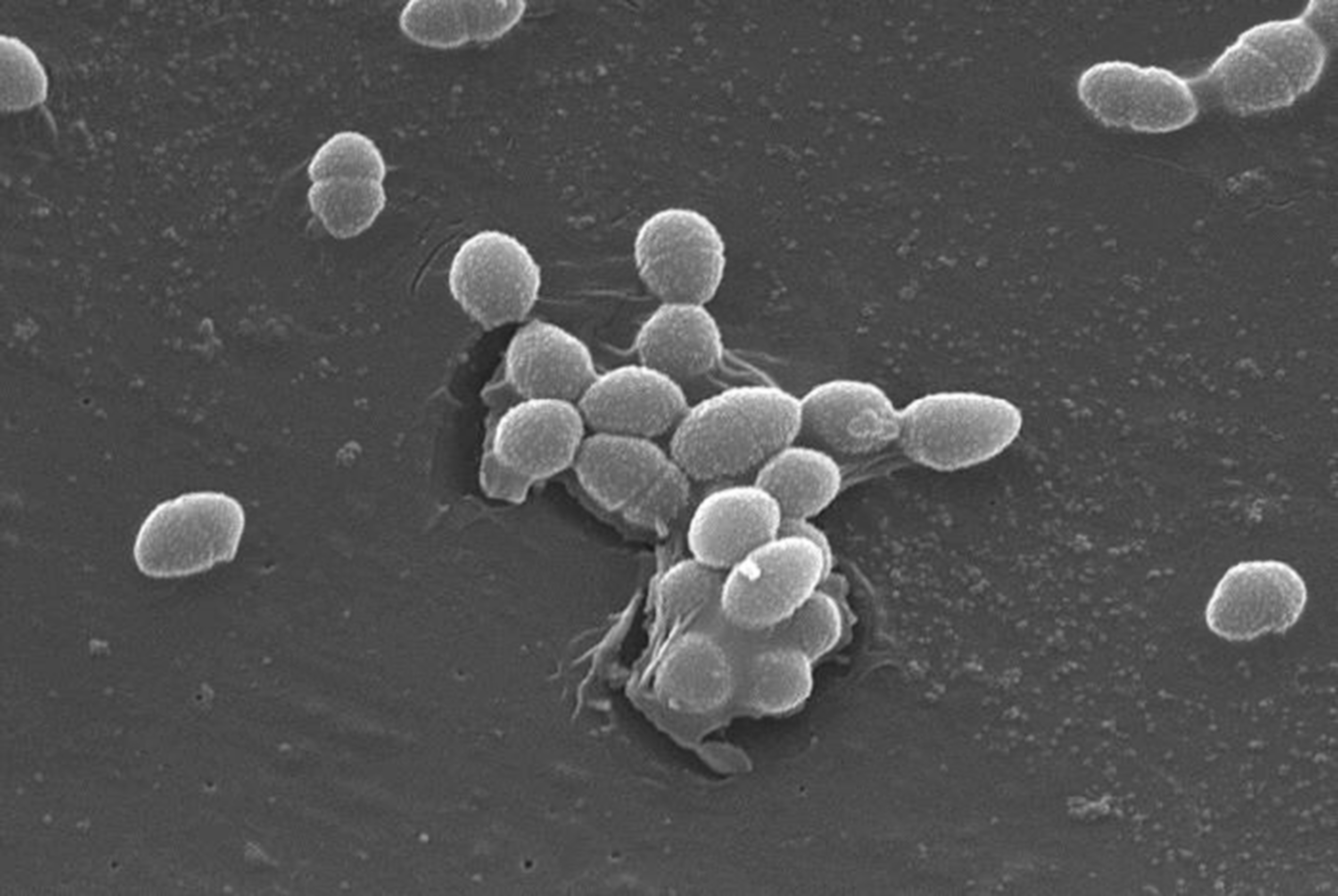 Scanning Electron Micrograph of Enterococcus faecalis